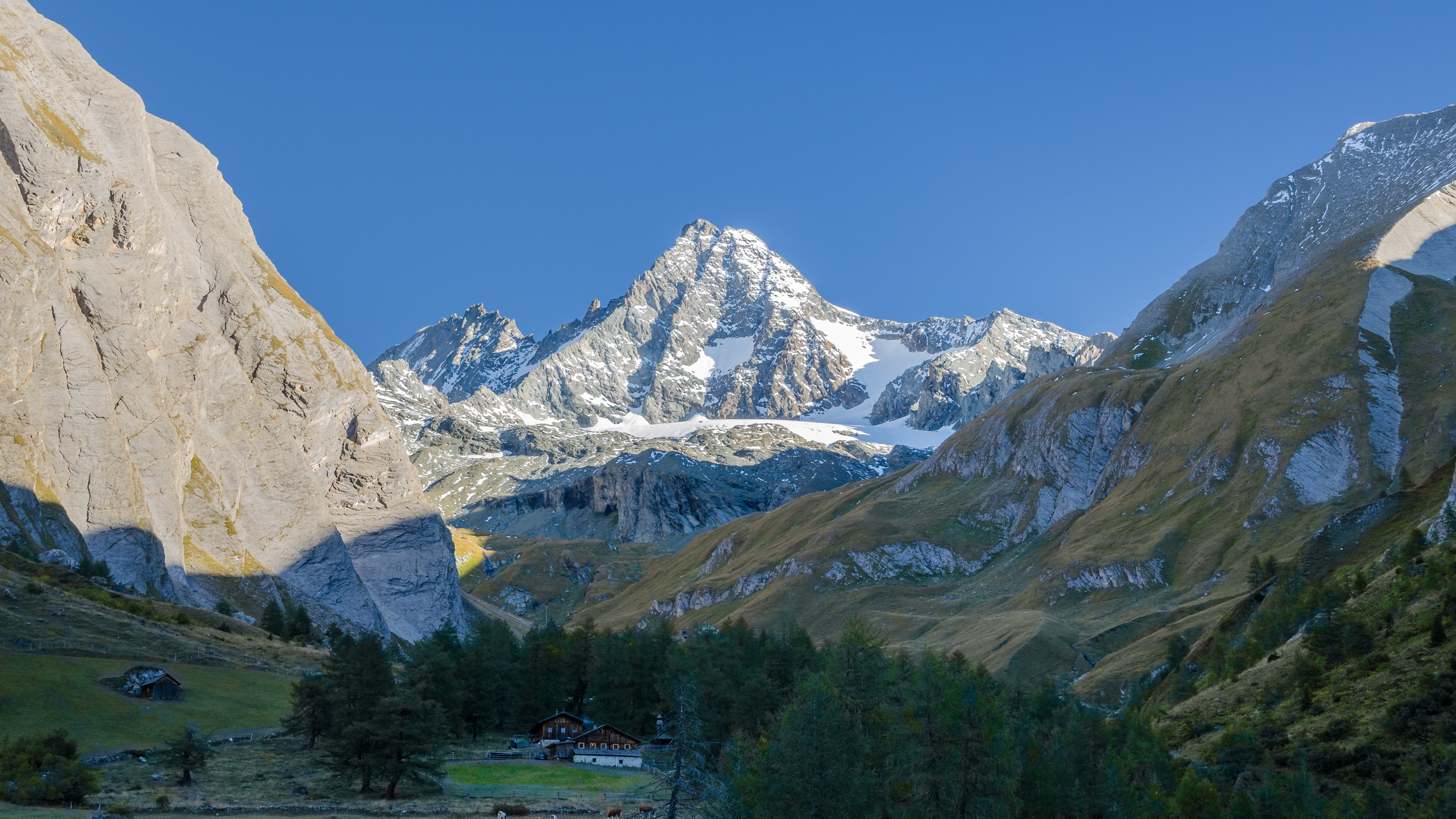 Grossglockner as seen from the parking lot at the Lucknerhaus